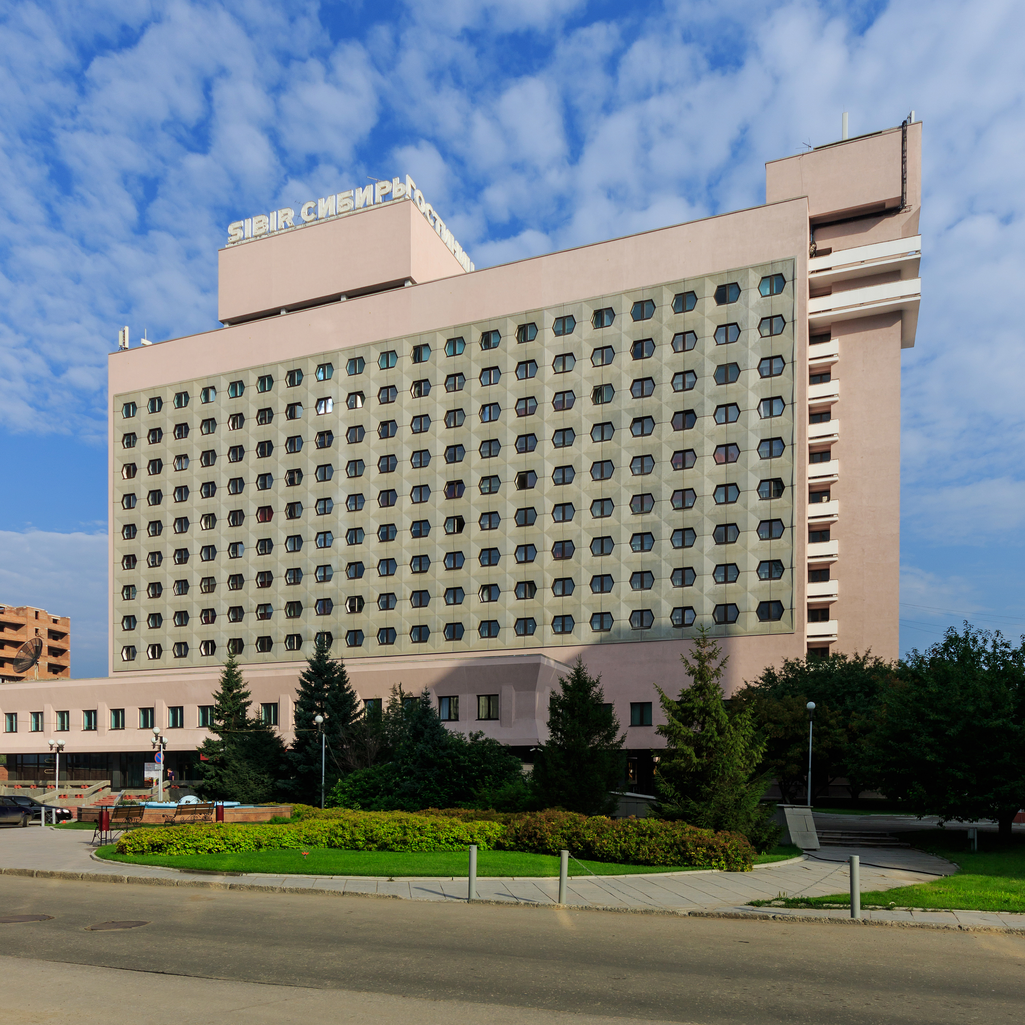 Azimut Sibir Hotel in Novosibirsk, Russia